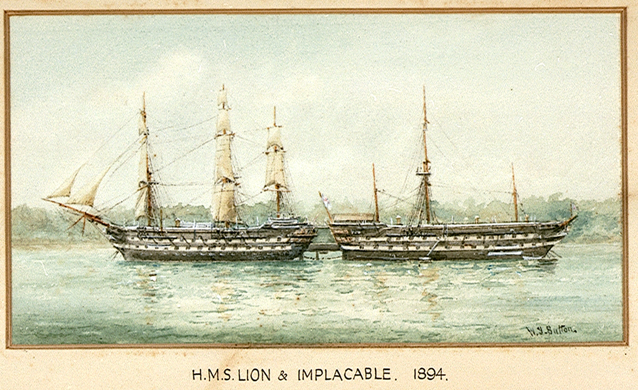 HMS Lion & Implacable 1894 Drawing